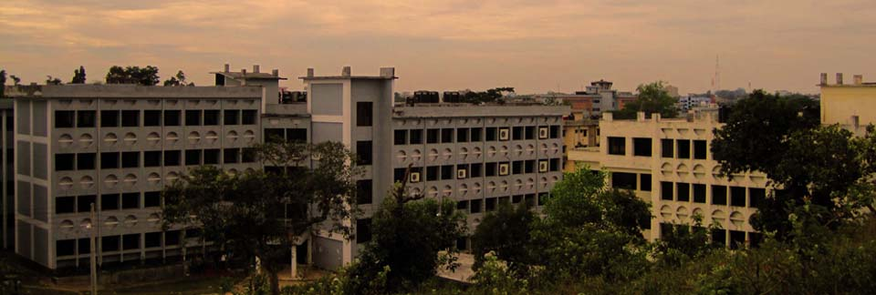 কম্পিউটার সায়েন্স এন্ড ইঞ্জিনিয়ারিং - সিলেট ইঞ্জিনিয়ারিং কলেজ